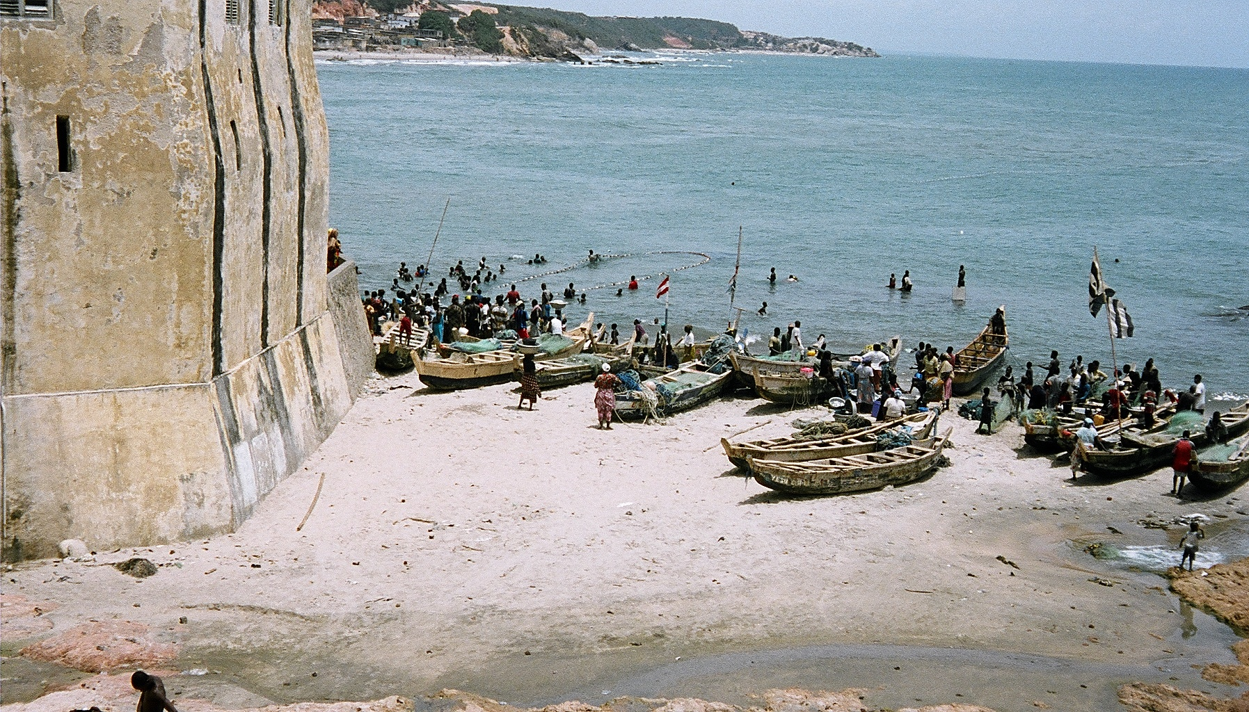 Fishing in Cape Coast, Ghana